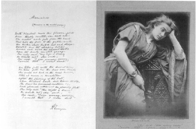 Two pages from Julia Margaret Cameron's album with illustrations for Idylls of the King